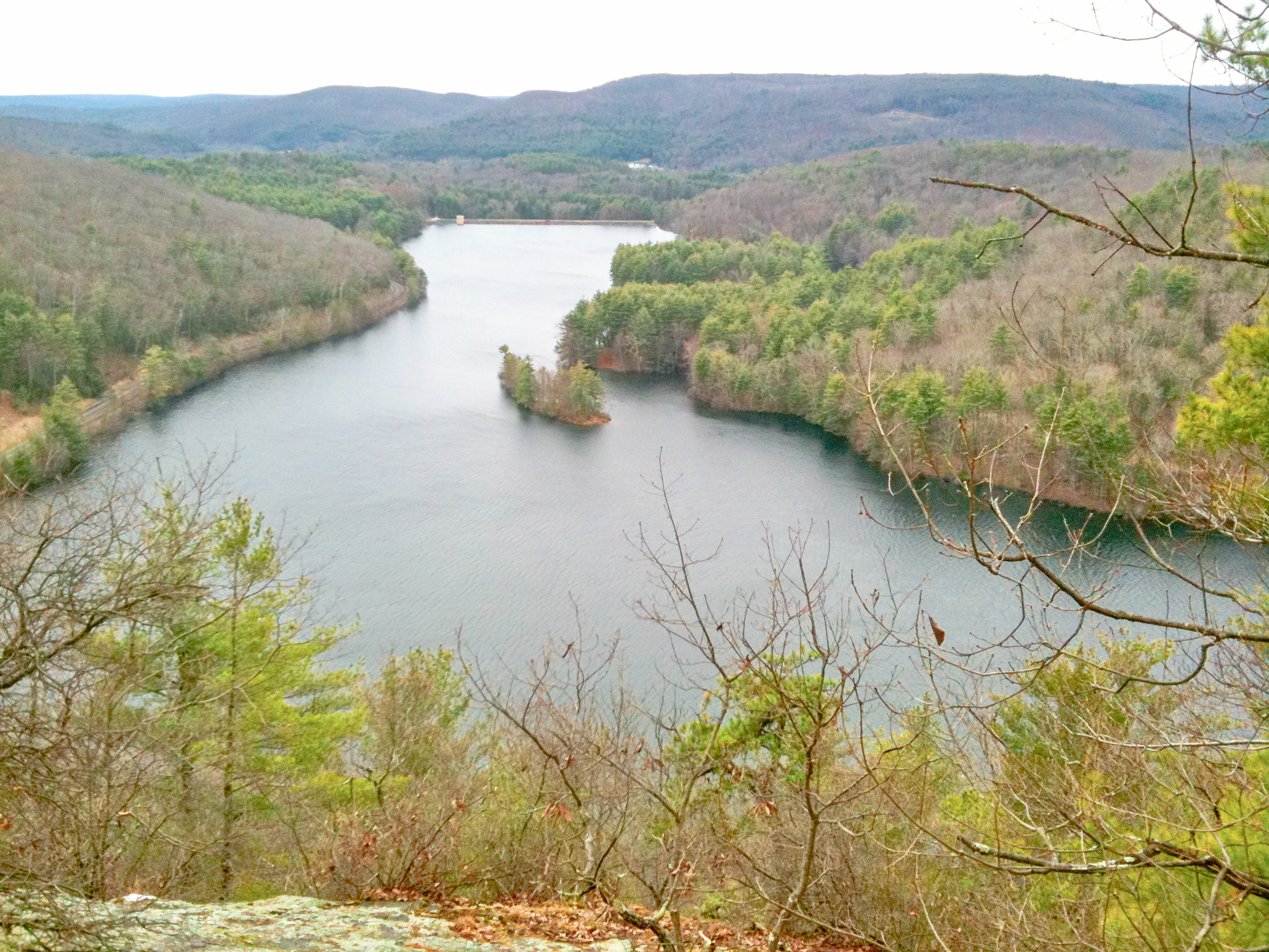 Lake Mcdonough reservoir as seen from the Tunxis Trail Overlook Spur trail. Barkhamsted, CT